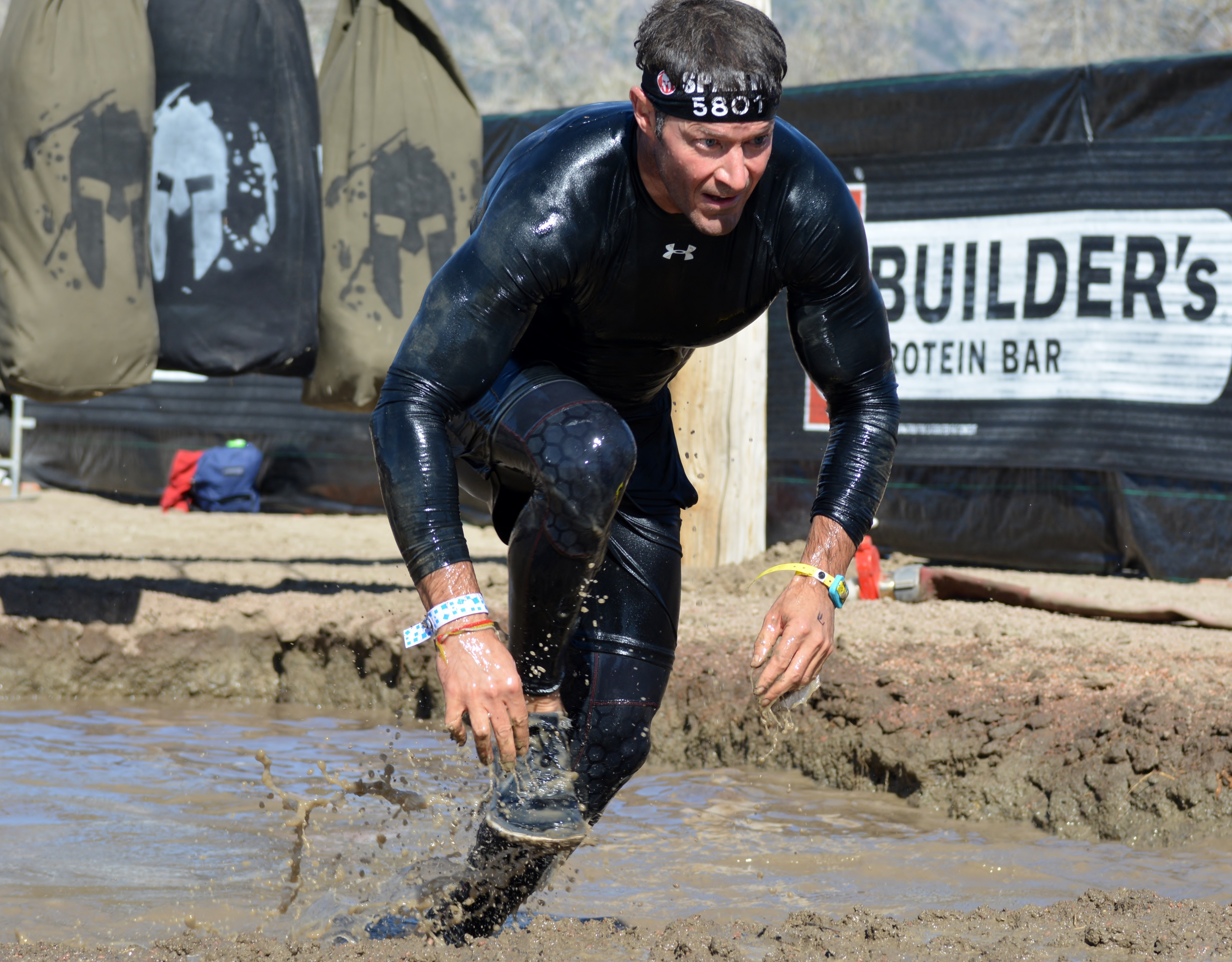 A Colorado Military Spartan Race competitor prepares to sprint to the finish line after coming out of a water hazard during a 4.5 mile Spartan Race held at Iron Horse Park, Fort Carson, Colo., May 3. Unit: 4th Infantry Division Sustainment Brigade